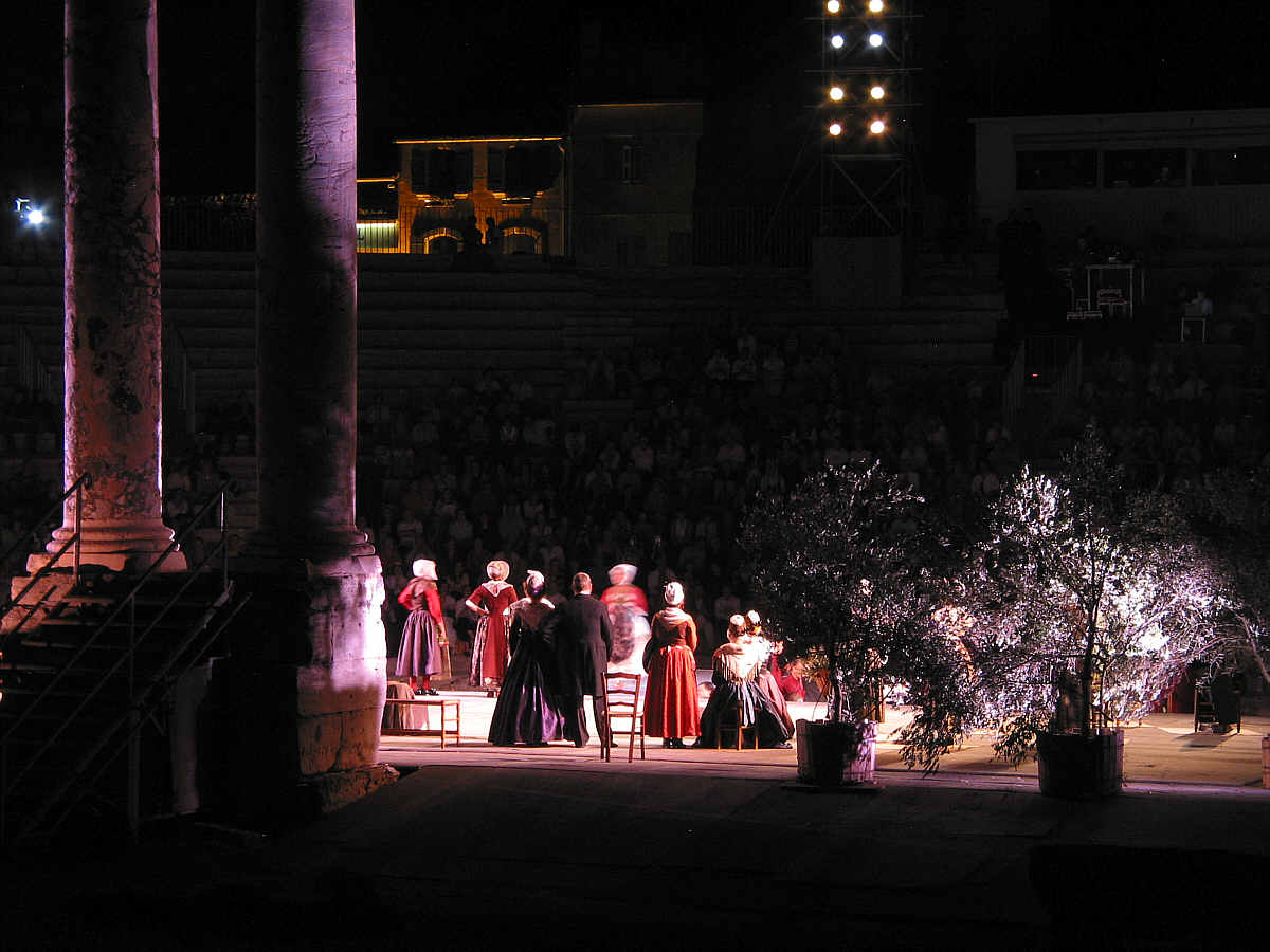 A presentation of old costumes was given this night. The group very much looks like some santons put into place.